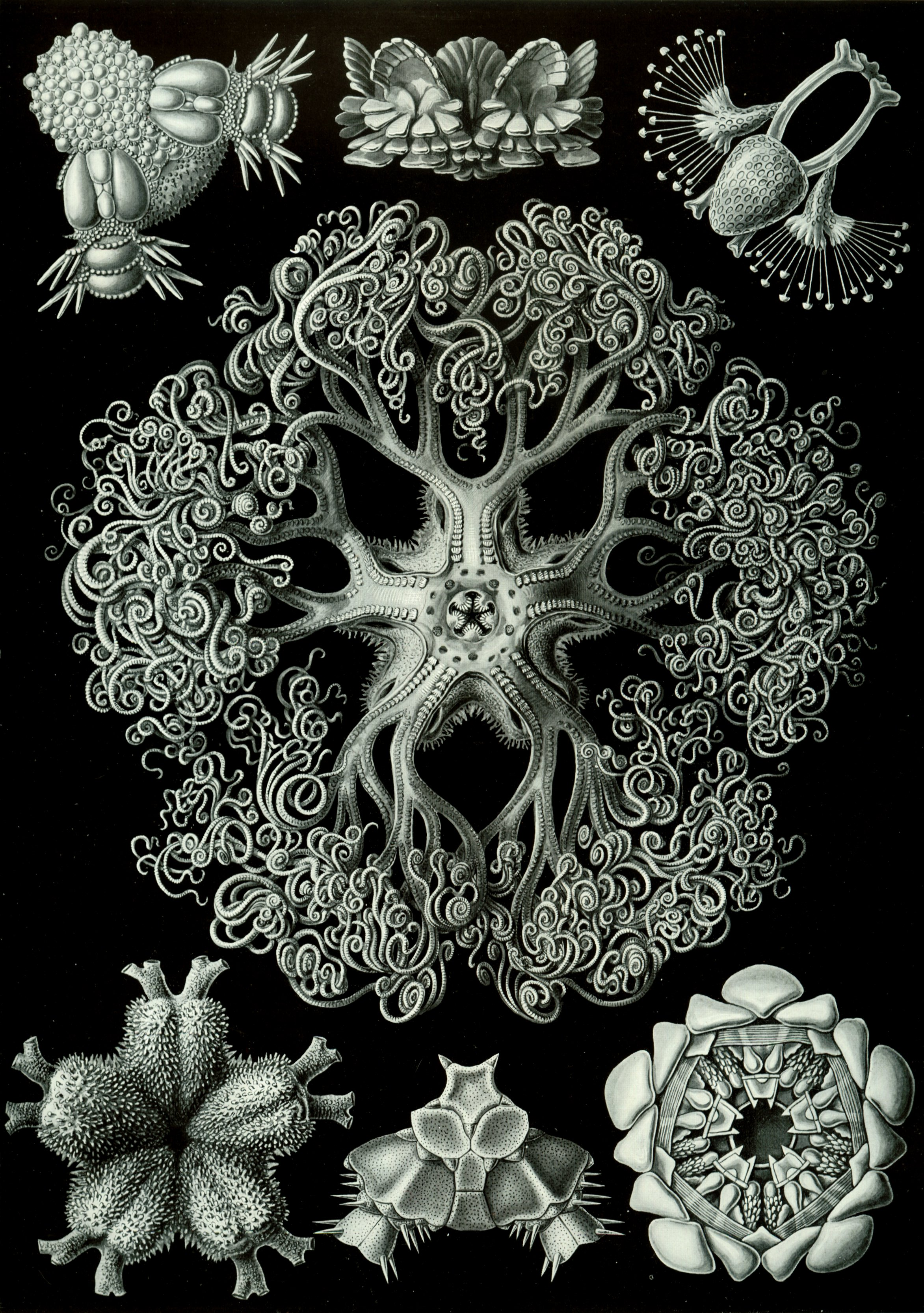 Astrophyton darwinium = Gorgonocephalidae sp., bottom view Astrophyton darwinium = Gorgonocephalidae sp., center without arms, top view Ophiopholis japonica (Lyman) = Ophiopholis japonica Lyman, 1879[1], center without arms, partial top view Ophiotholia supplicans (Lyman) = Ophiotholia supplicans Lyman, 1880[2], lower center without arms, side view Ophiohelus umbella (Lyman) = Ophiohelus umbella Lyman, 1880[3], skeleton of an arm section near the arm's end Ophioglypha minuta (Lyman) = Aspidophiura minuta (Lyman, 1878)[4], center without arms, partial top view Hemipholis cordifera (Lyman) = Hemipholis cordifera (Bosc, 1802)[5], mouth, bottom view Full text description (in German)